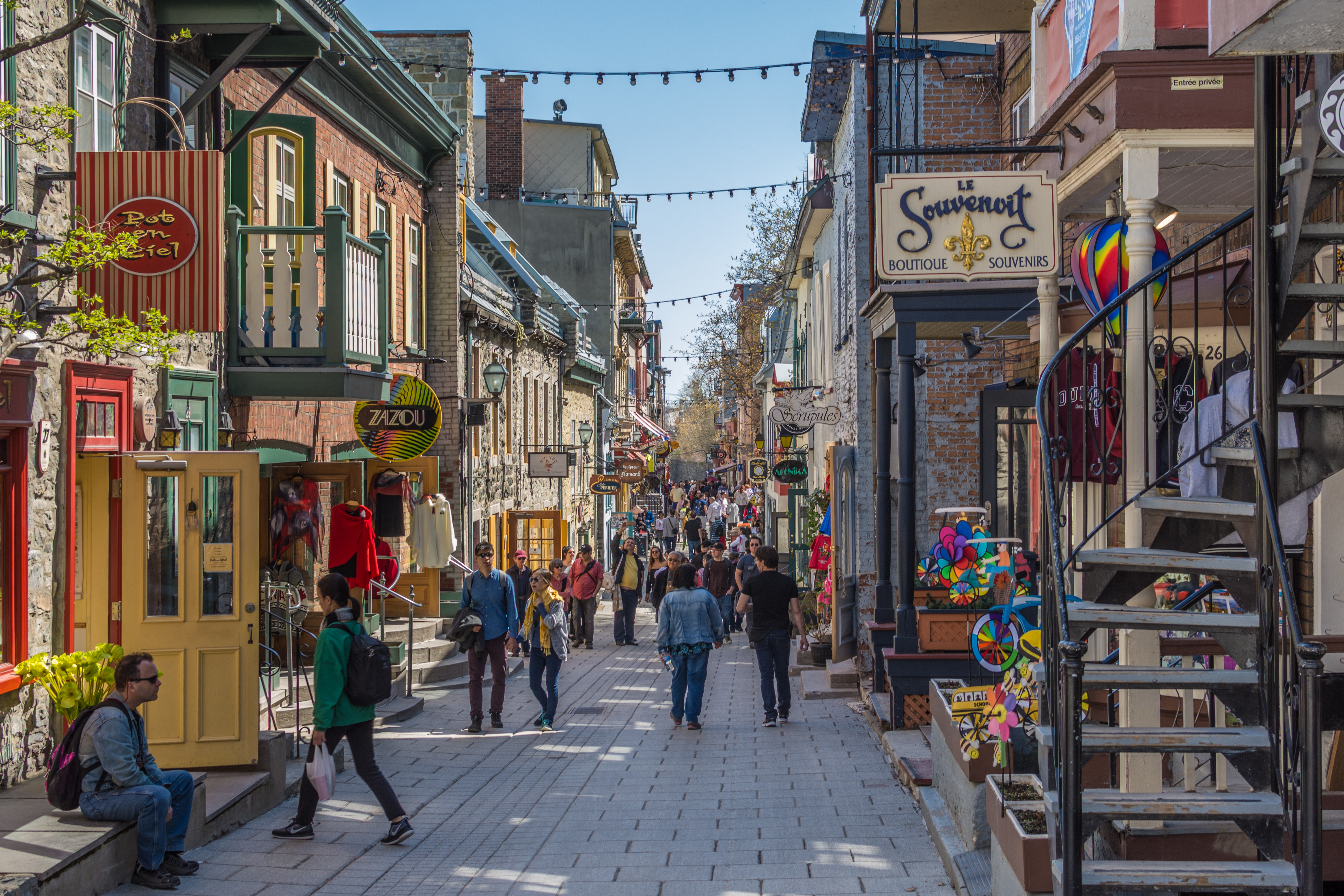 Vieux-Québec, Quartier Petit Champlain